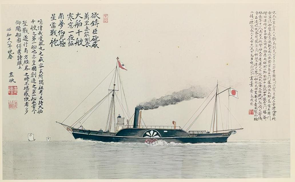 Ryōfū Maru was a steamship built by Saga domain, completed in 1865.